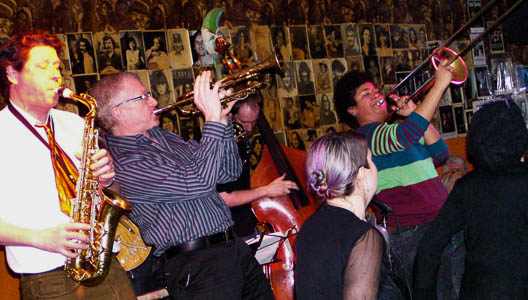 The Happy Pals at Grossmans Tavern in Toronto, Canada